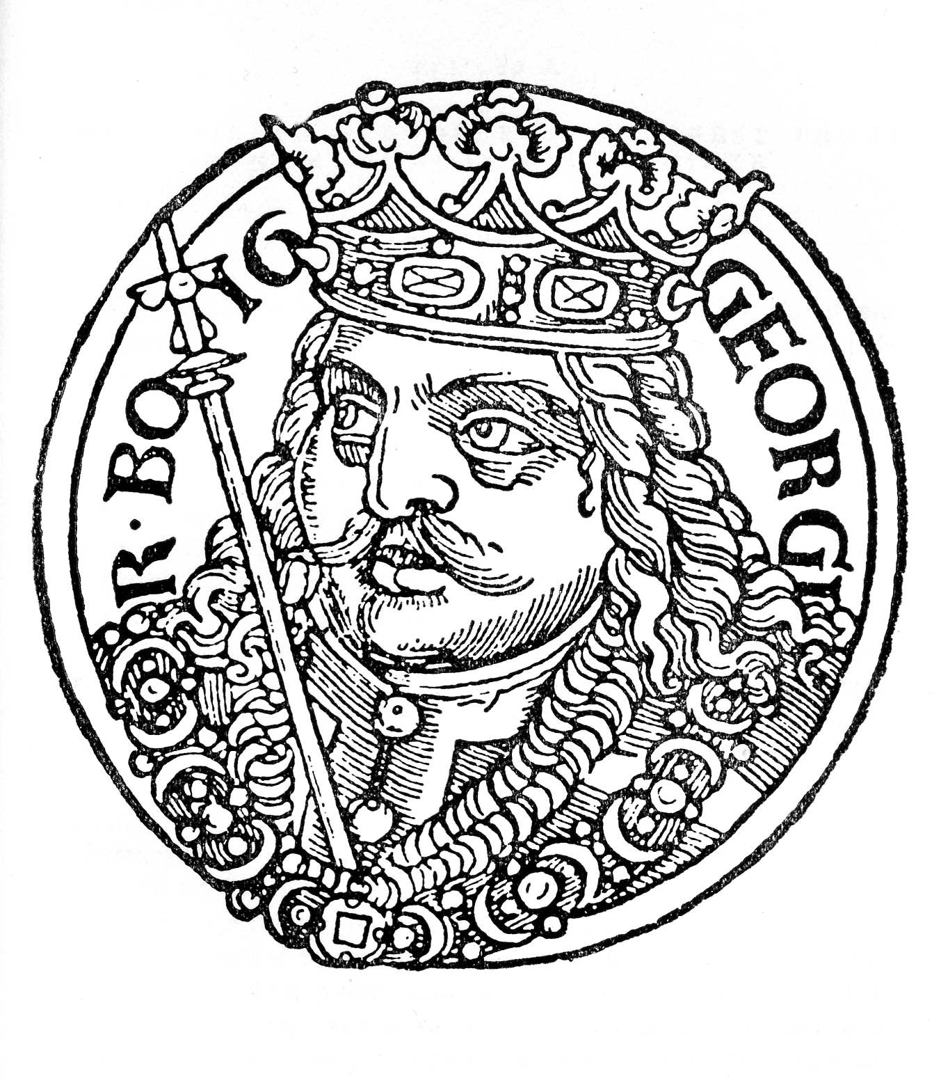 George of Podebrady, King of Bohemia